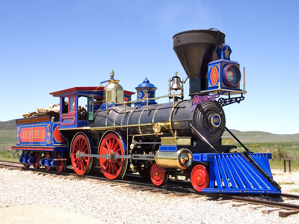 A recreated CP # 60 steam locomotive at the Golden Spike National Historic Site in Utah.